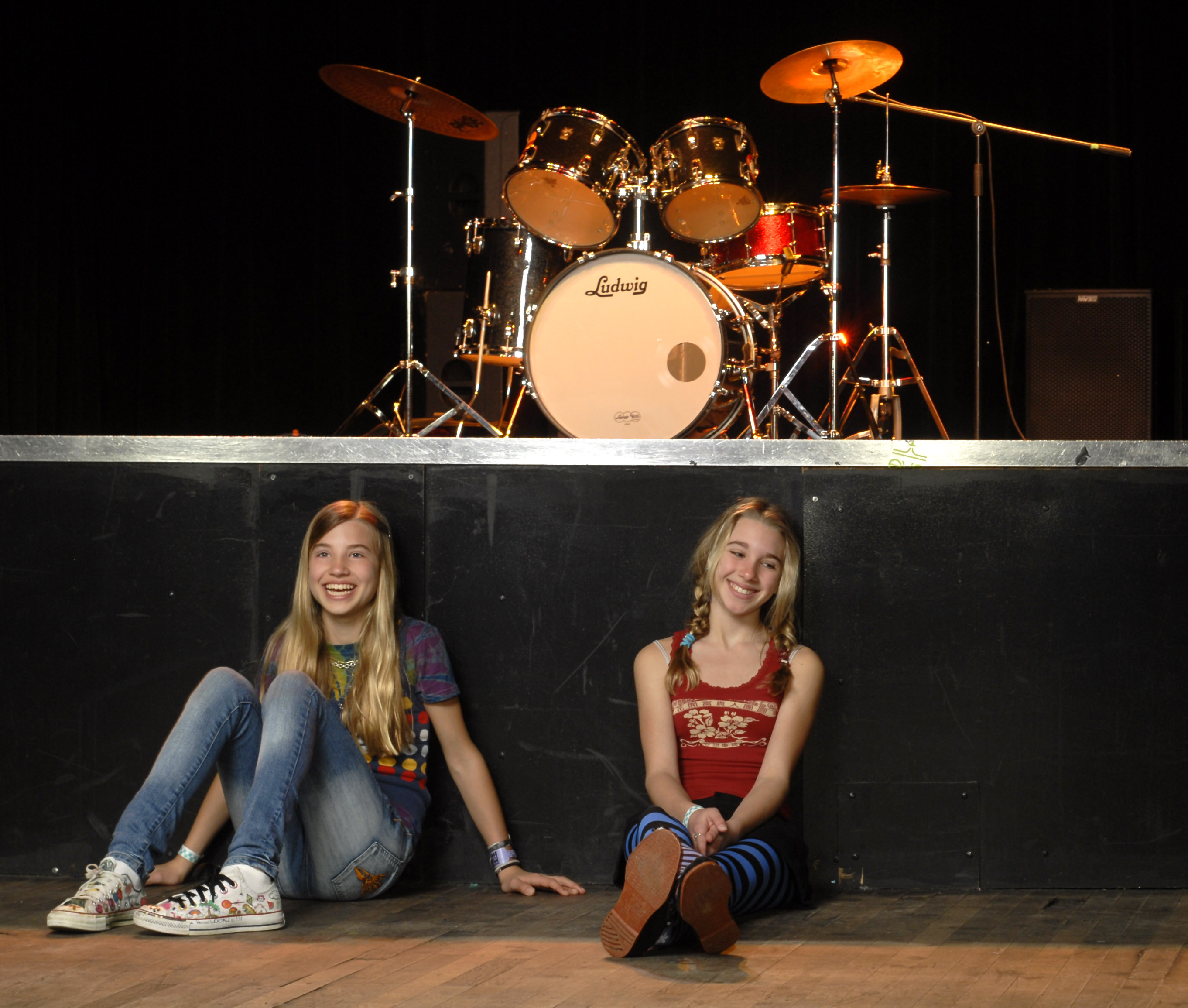 The band Smoosh (see Smoosh), later Chaos Chaos. Press kit photo, GFDL rights granted; one of their two authorized press kit photos as of 20 April 2006.